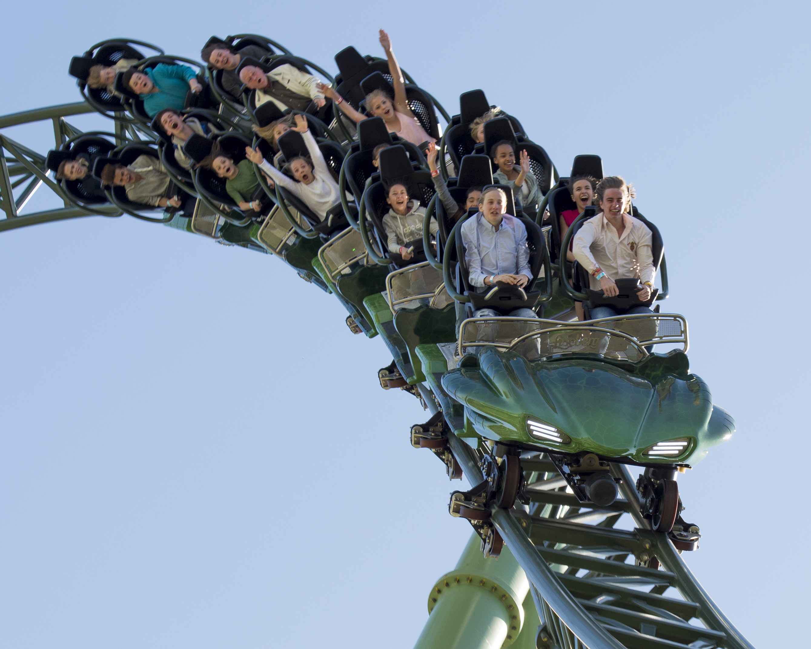 The Helix roller coaster at Liseberg, Sweden. The photo was taken at the premiere, 26 april 2014.